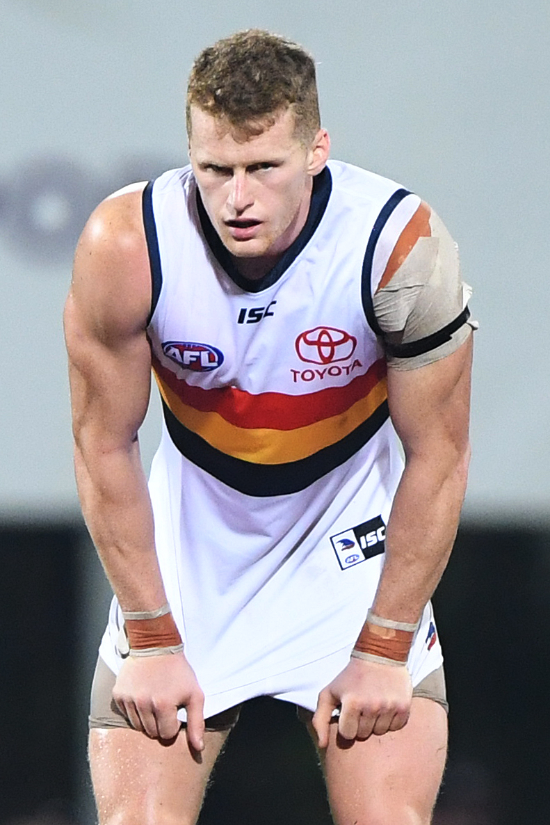 Reilly O'Brien of Adelaide during the 2019 AFL round 11 match between Melbourne and Adelaide at TIO Stadium on Saturday, 1 June 2019 in Darwin, Northern Territory.